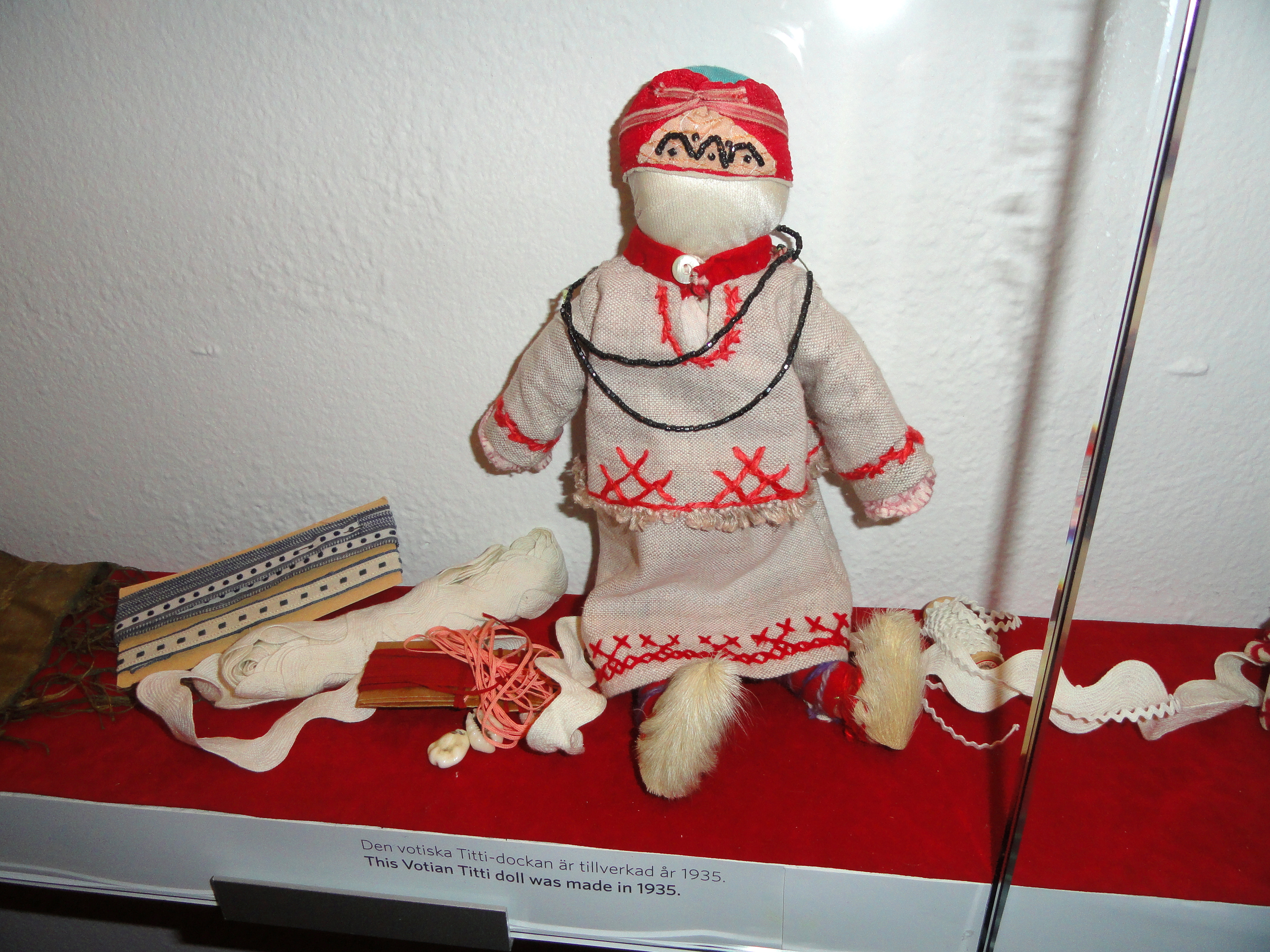 Doll exhibit in the Museum of Cultures, Helsinki, Finland.